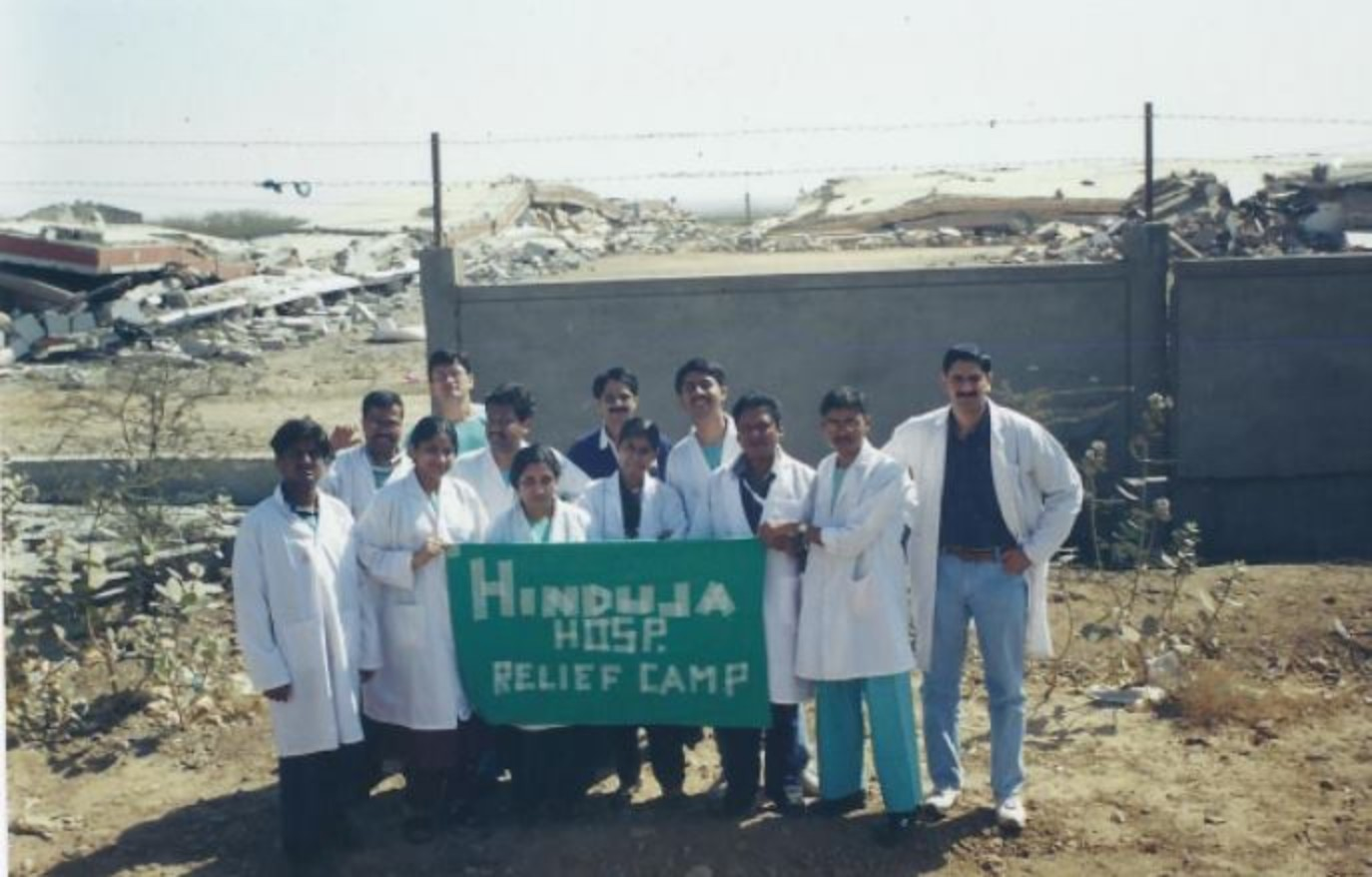 Hinduja Hospital's Medical Relief Camp at Bhuj after the 2001 Gujarat Earthquakes